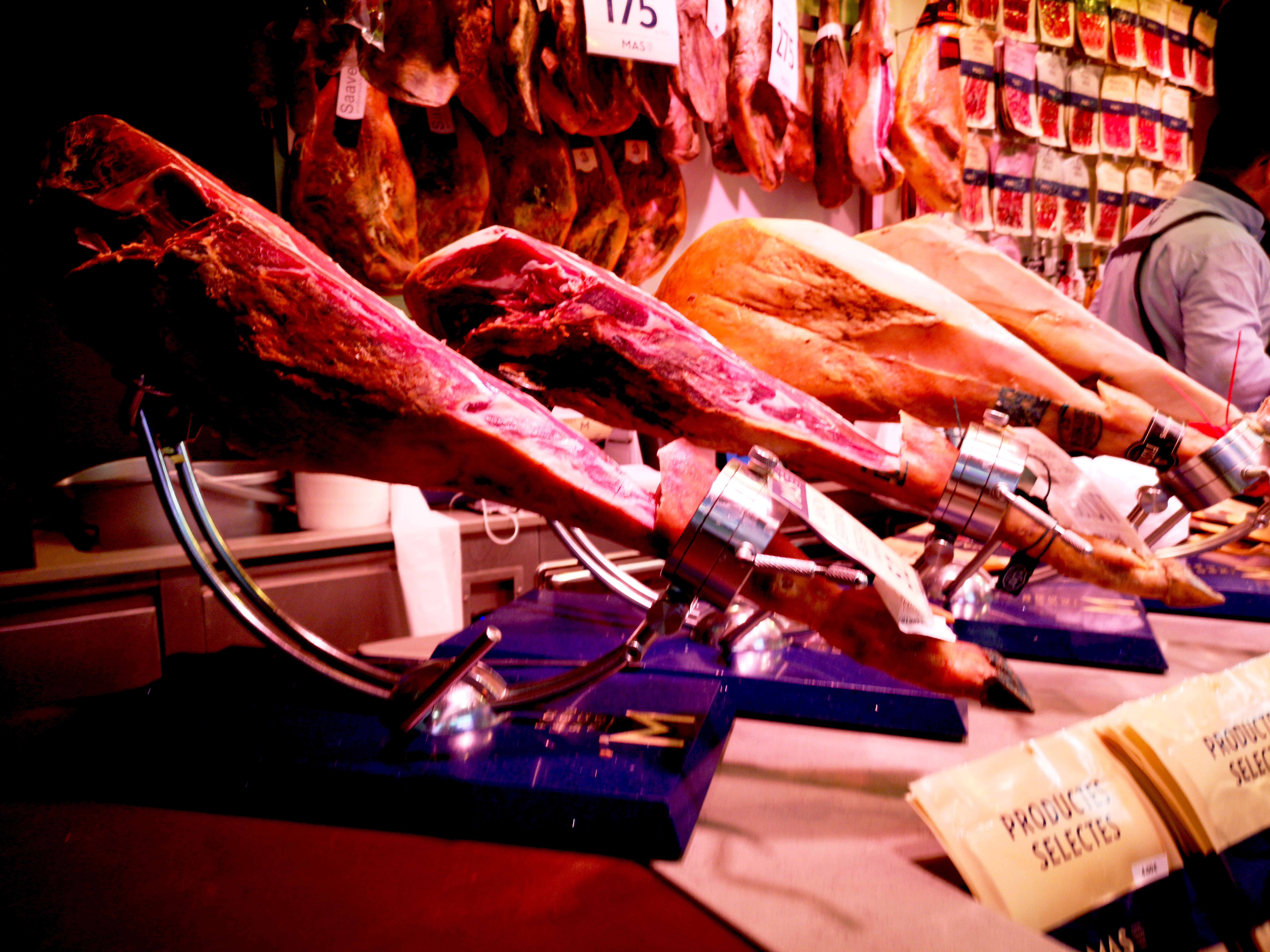 Traditional Spanish dried pork leg (jamon) marketed in Barcelona. This photo has been taken in the country: Spain